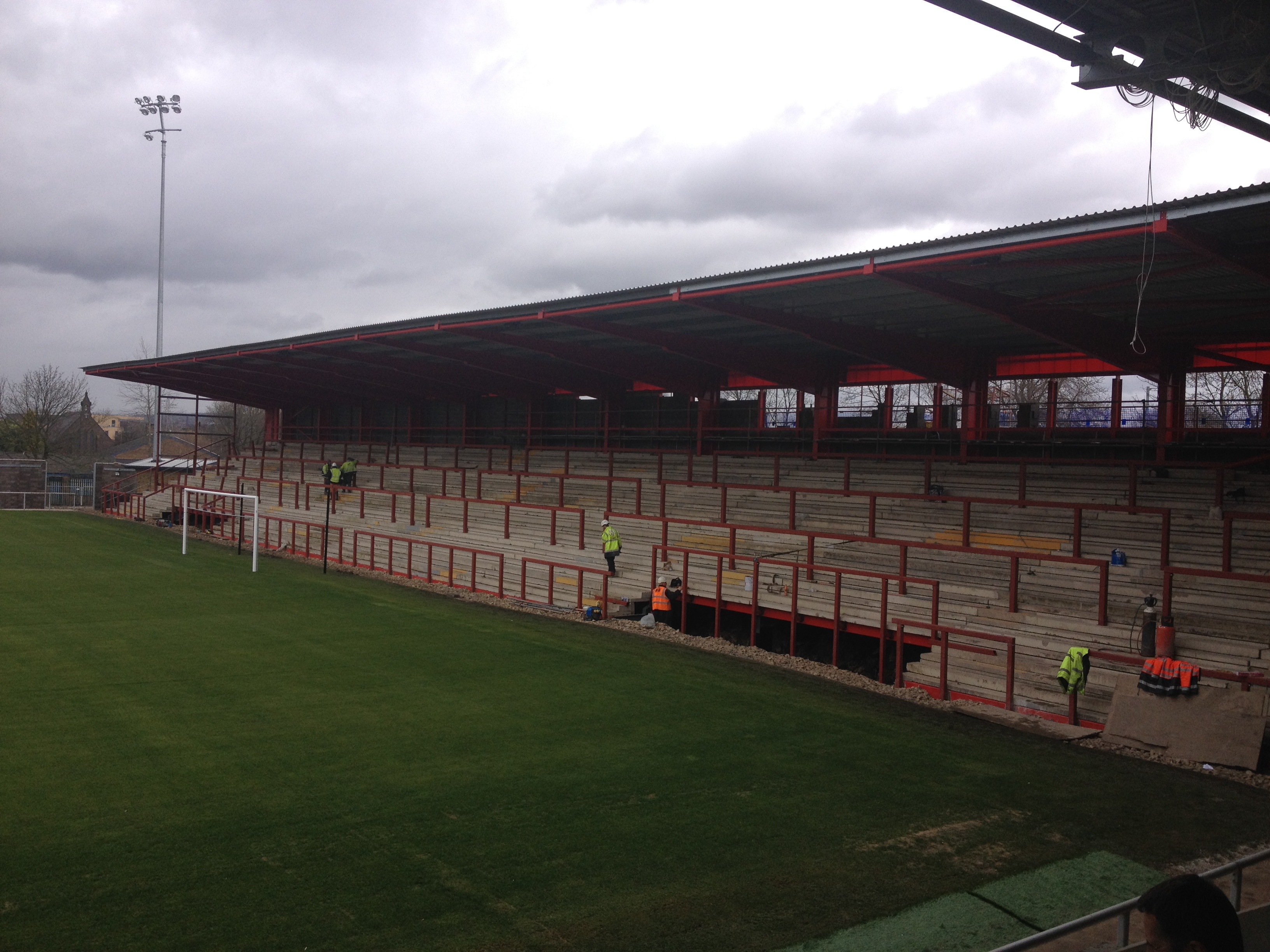 Broadhurst Park – SMRE stand under construction. The stand was recovered from Victoria Stadium.